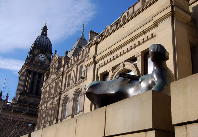 Leeds. Henry Moore town A Henry Moore reclining figure on a wall in front of the Art Gallery close to the town Hall.